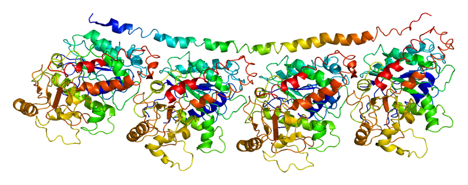 Structure of the TUBA4A protein. Based on PyMOL rendering of PDB 1ffx.